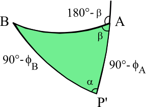 Example 2 Own design (Livinus)